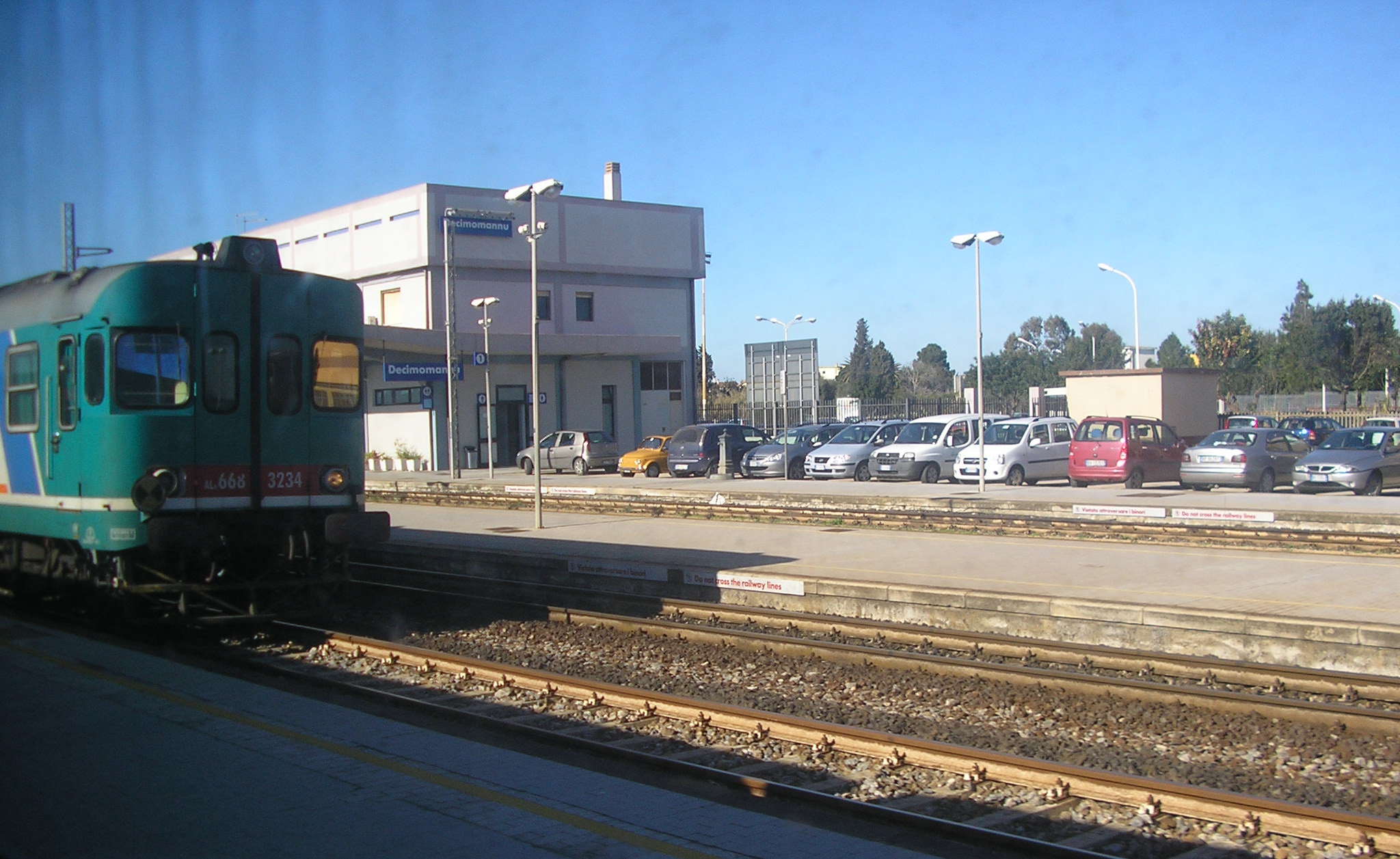 An ALn 668 waiting in the Decimomannu railway station, in Sardinia, Italy